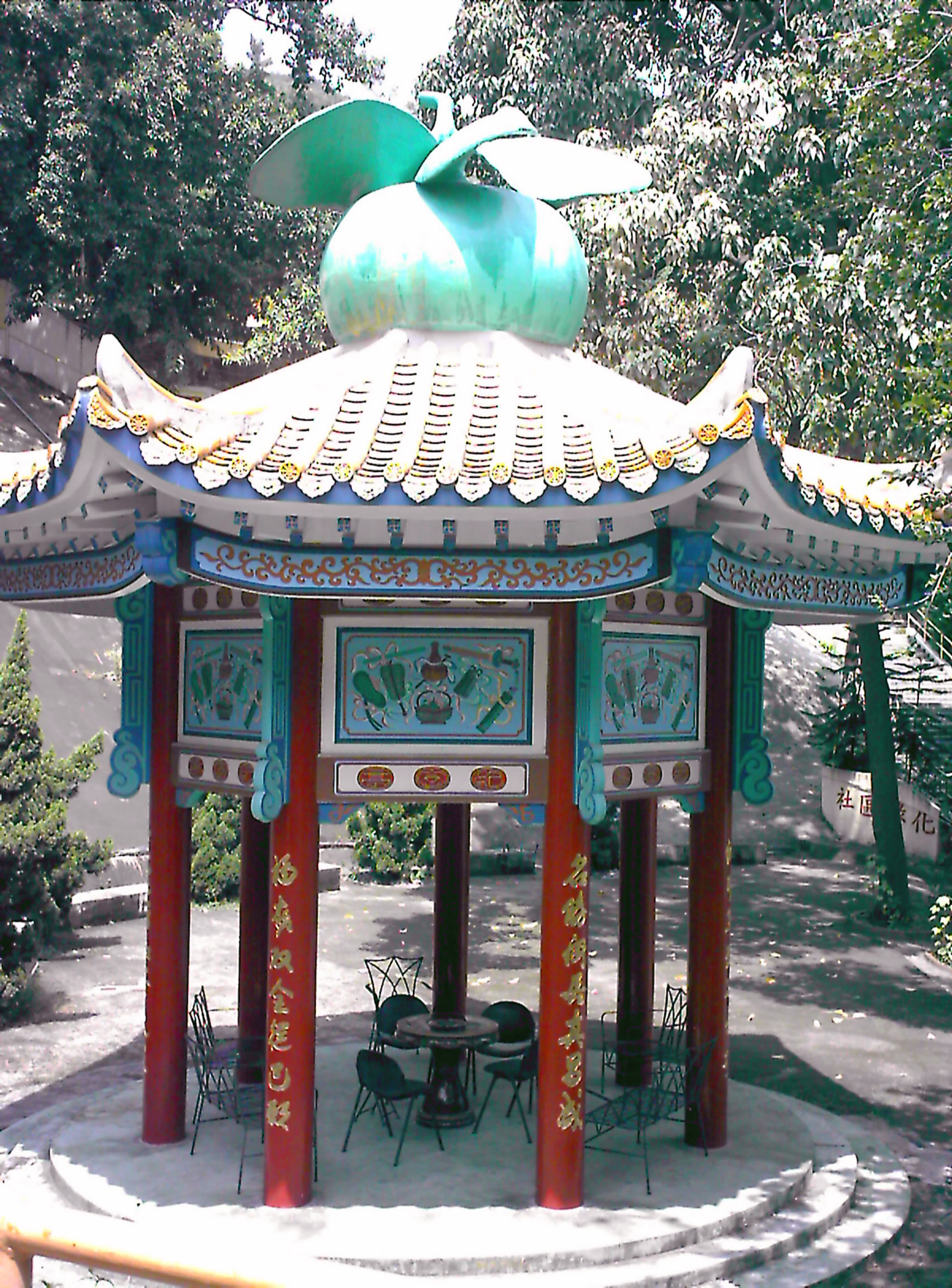 Heptagon Pavilion, Hong Kong and Kowloon Fuk Tak Buddhist Association 中文（香港）: 港九福德念佛社，大吉居亭(七柱紀念亭)